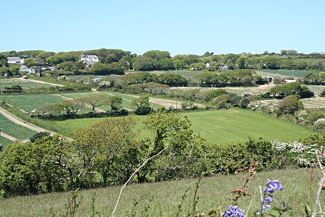 The Fields of Menagissey. Looking across the valley to the cultivated south-facing fields below Menagissey.